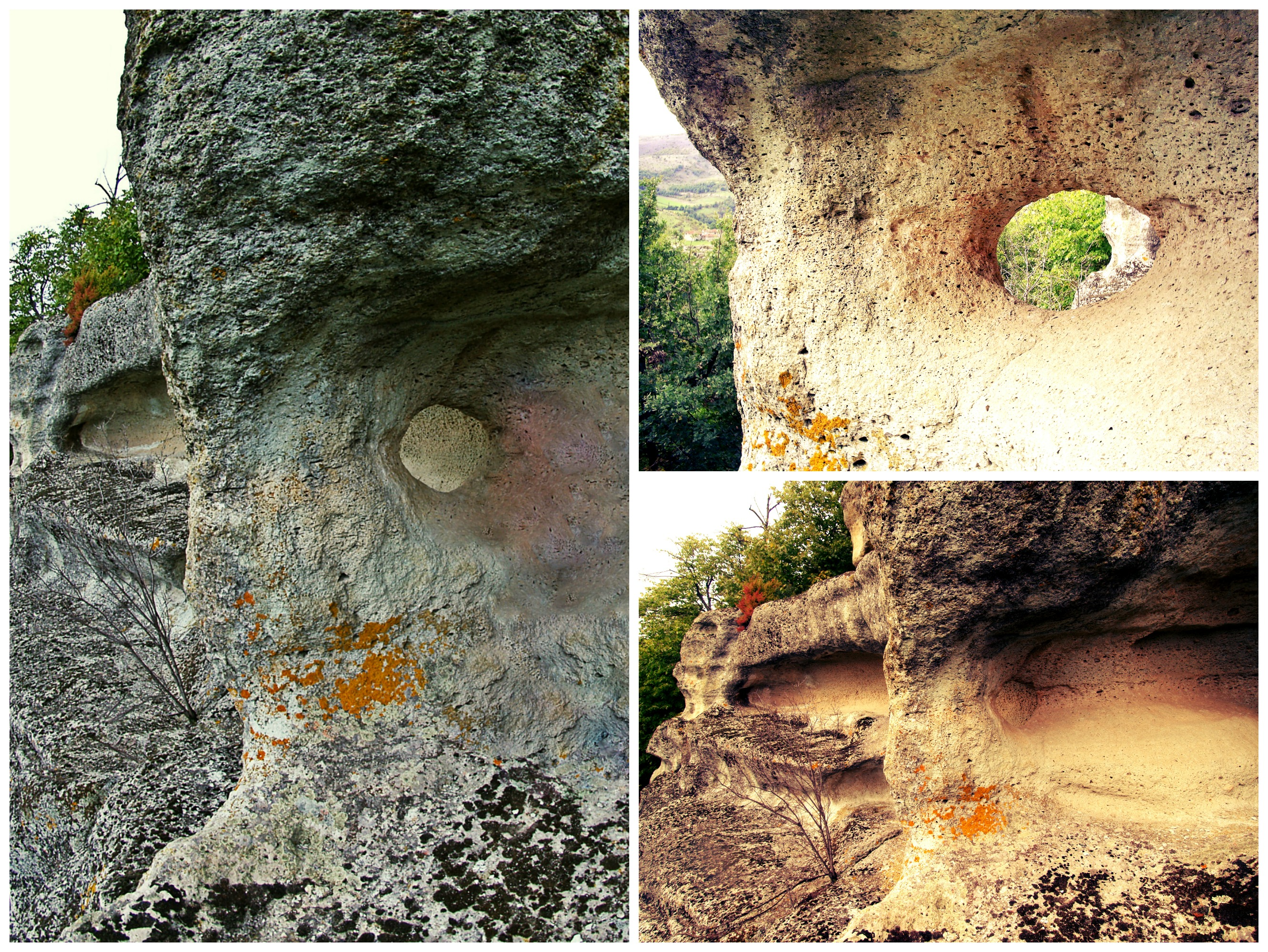 Kovil the eye of the pyramid East Rhodopes BG